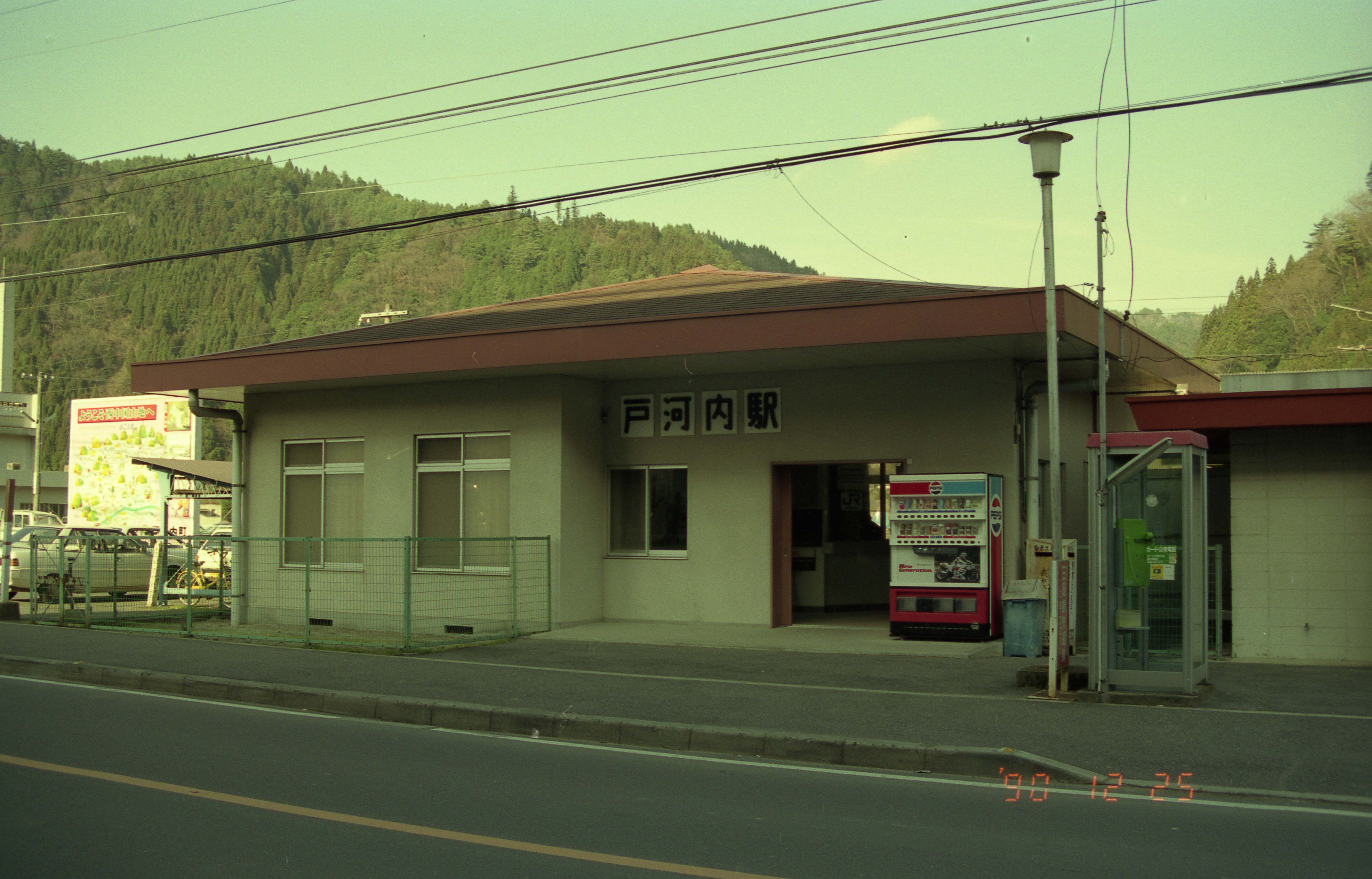 The building of Togouchi Station, West Japan Railway Company Kabe Line (before abolished)